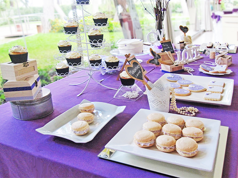 Candy Bar